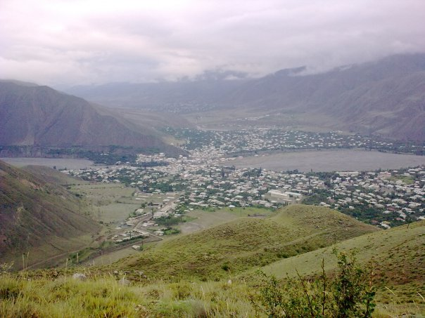 This is view of a mountain town of Akhty, Russia, the Republic of Dagestan.